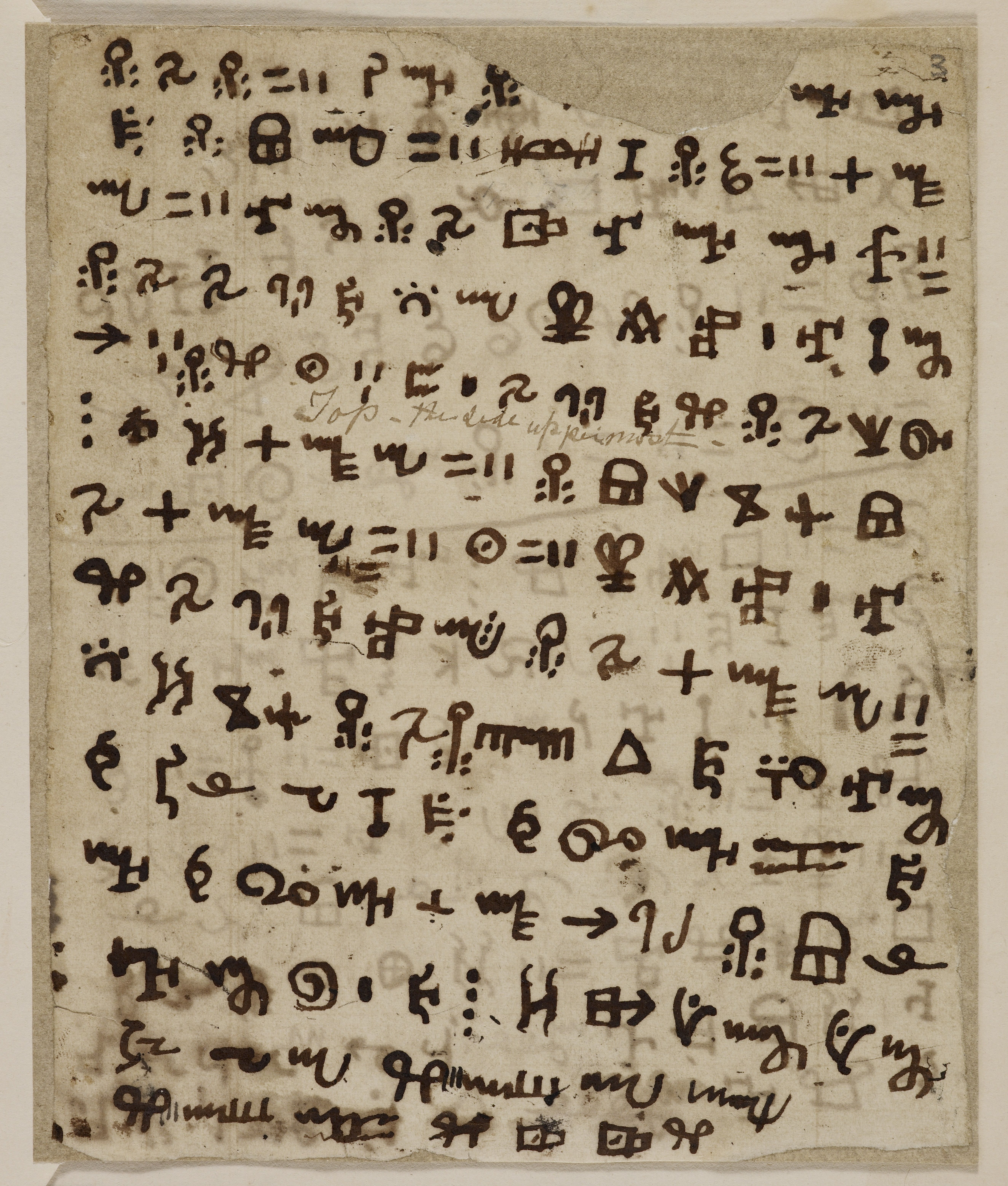 This script was created in West Africa, and was one of many scripts created throughout the 19th and 20th century as an alternative to the European writing that was predominantly used. The creation of the script was a part of a larger endeavor greater represent African languages.